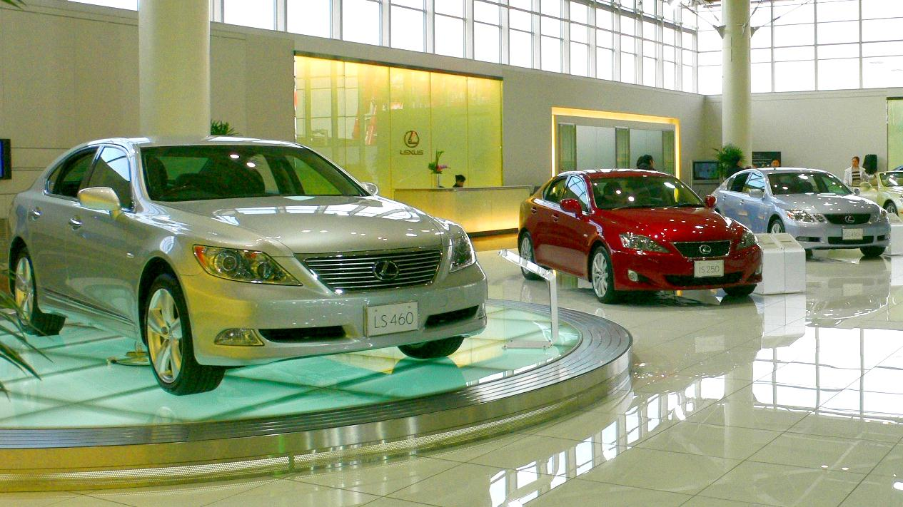 MEGAWEB (Showroom of Toyota); photo cropped and contrast adjusted